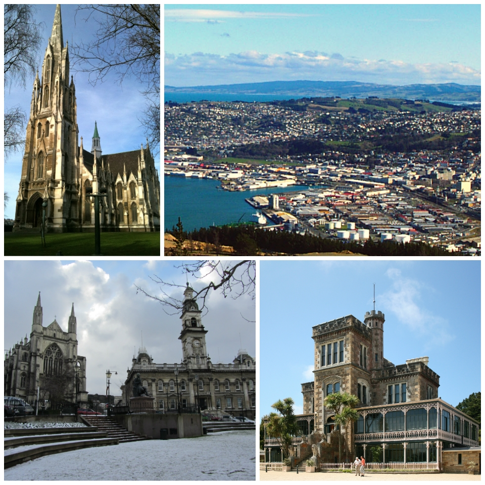 Snapshots of Dunedin